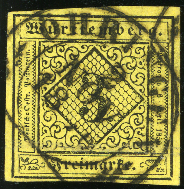 Kingdom of Wurtemberg, 3 kreuzer first issue 1851 stamp, 'Steigbügel' cancelled at ÖHRINGEN in 1856.